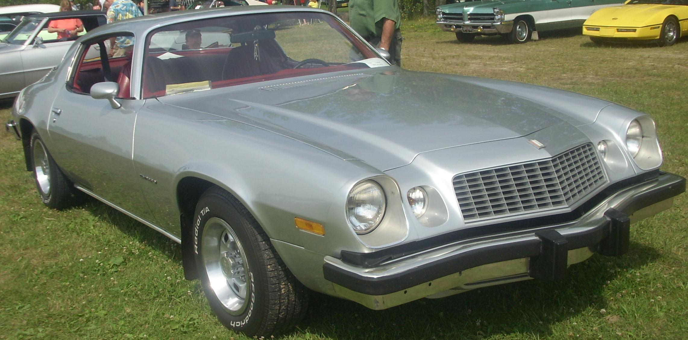 1976 Chevrolet Camaro photographed in Laval, Quebec, Canada at Auto classique Laval 2010.